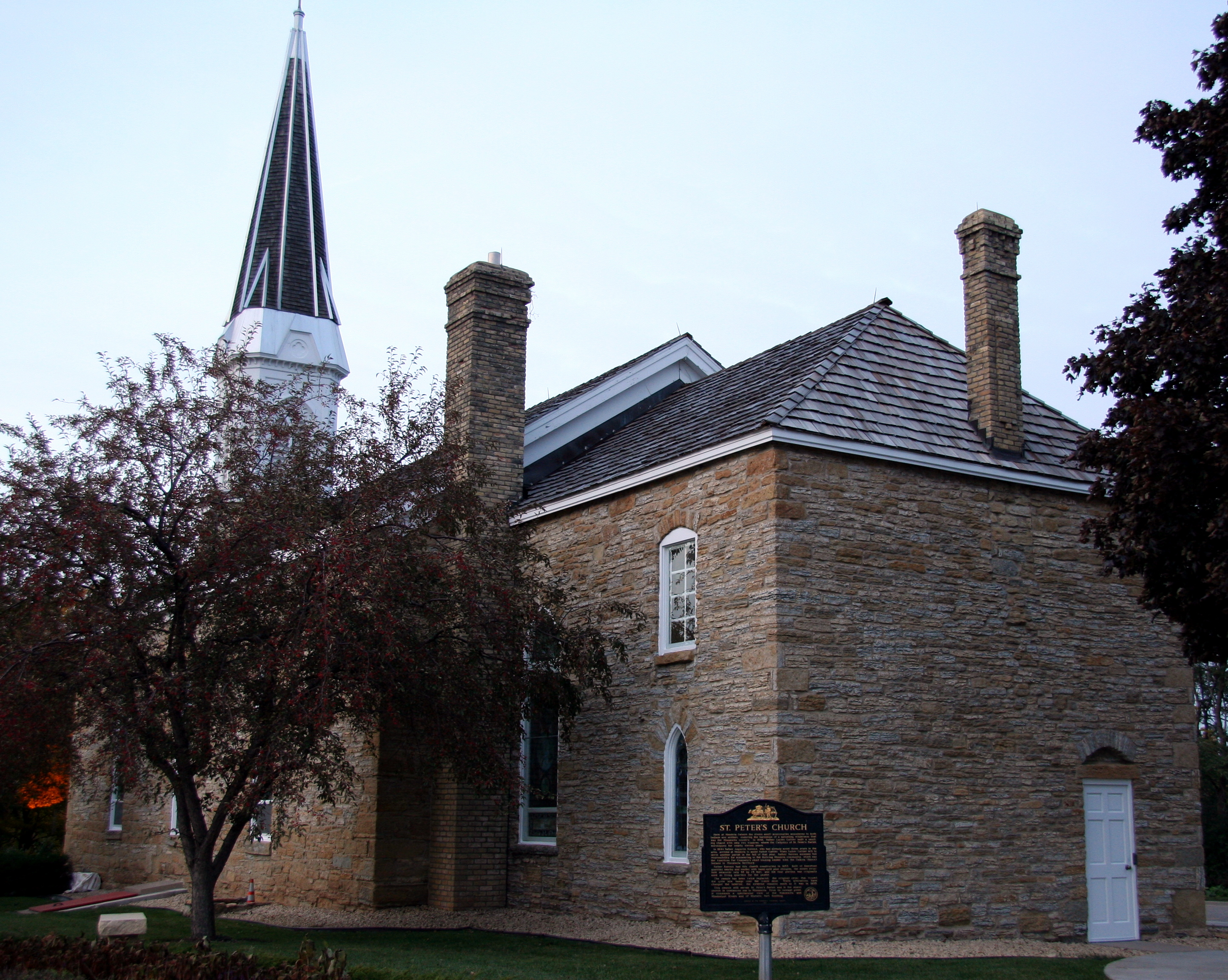 St. Peter's Catholic Church, 1405 Highway 13, Mendota, Minnesota. This view shows the back portion of the stone building which was formerly used as living quarters for priests.